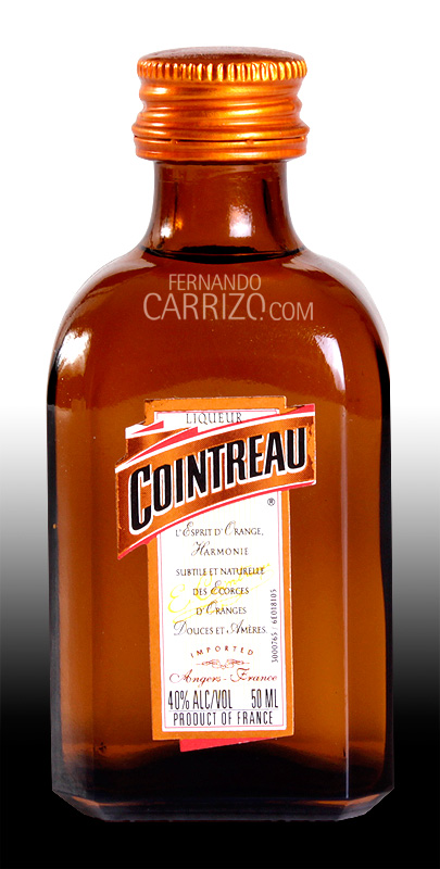 Bottle of Cointreau.